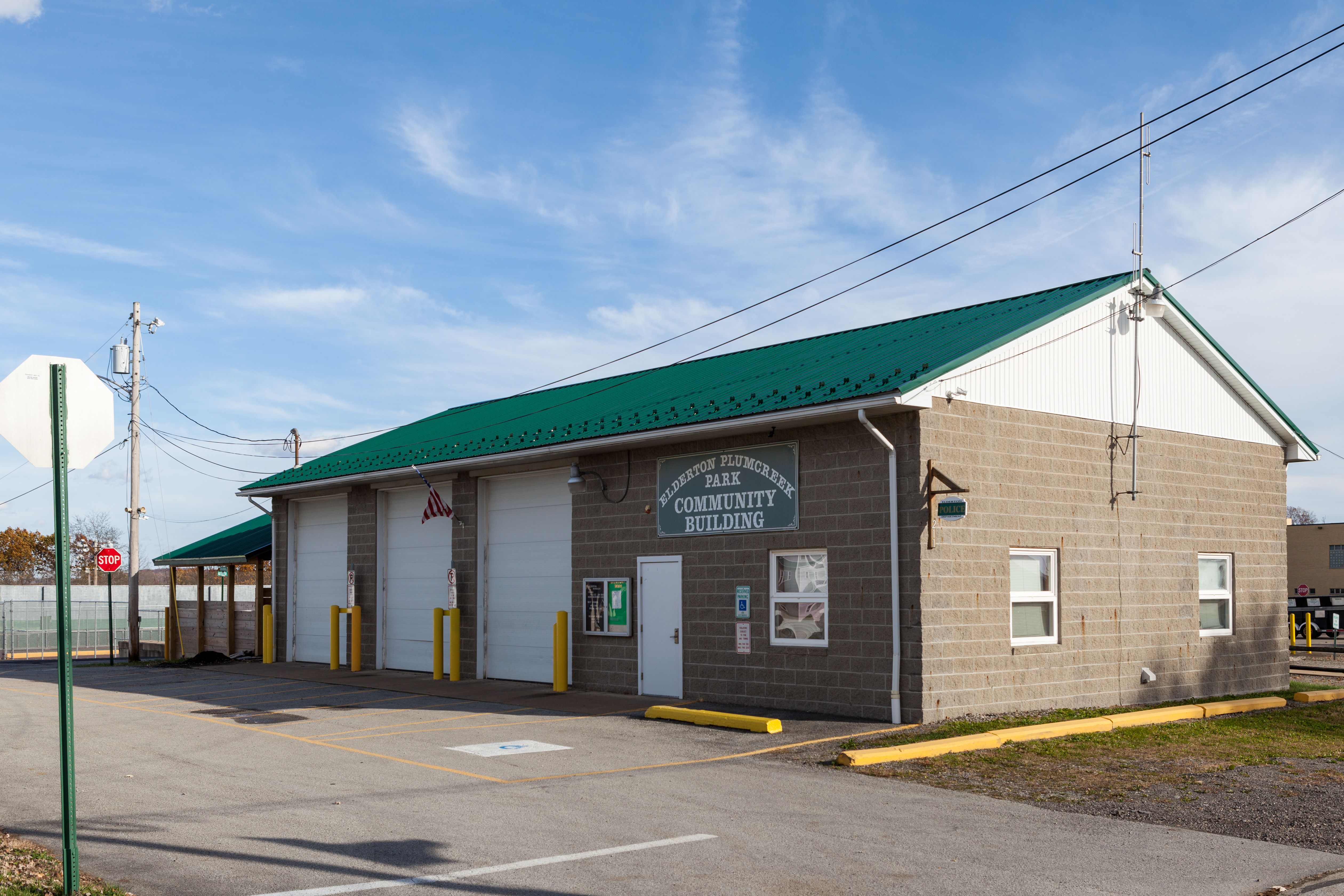 Elderton Plumcreek Park Community Building at 211 South Lytle Street, contains borough and police offices for Elderton Borough.